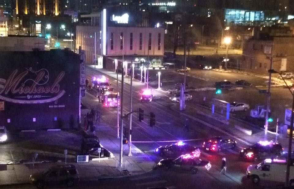 Police respond to a shooting near the intersection of 19th and Main in the early hours of New Years Day, 2016.